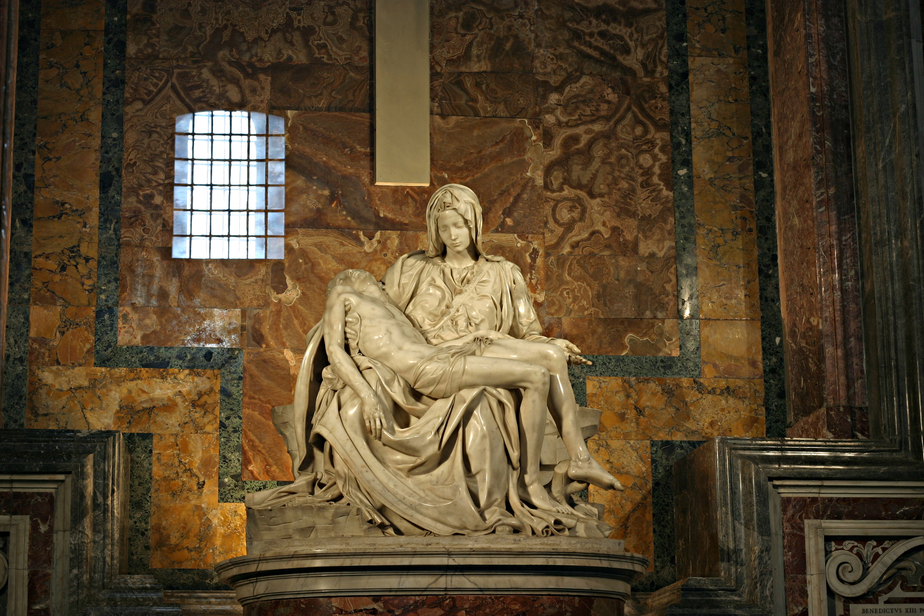 Michelangelo's Pietà in St. Peter's Basilica in the Vatican.